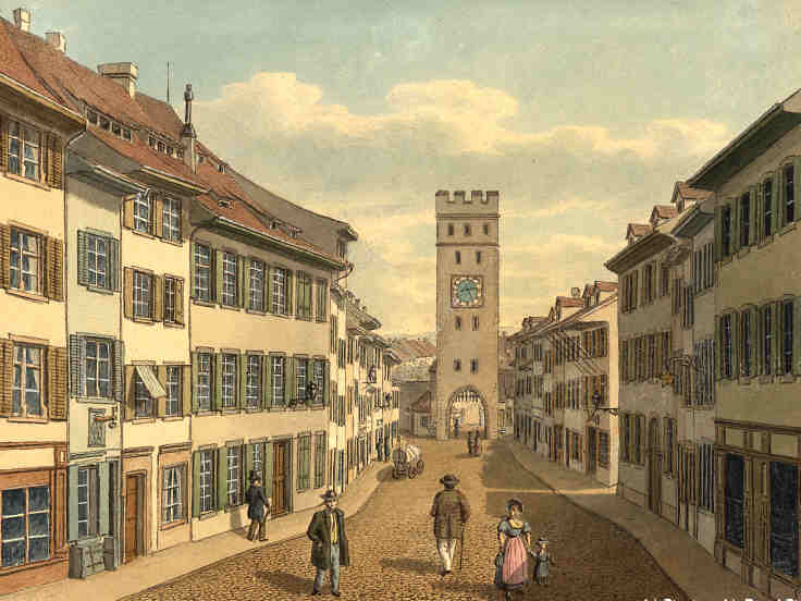 Aquarelle reproduction of the Aeschentor (Gate of Aesch) in Basel, Switzerland